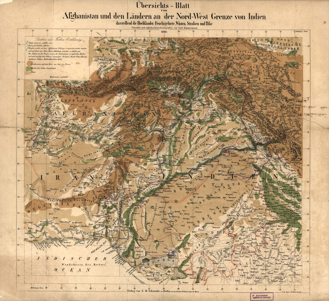 Carl Zimmermann was a first lieutenant in the Prussian Army who, in the early 1840s, developed a strong personal and professional interest in the conflict then being waged by the British Army in Afghanistan. In what became known as the First Anglo-Afghan War (1839-40), Britain tried to extend its control from India northwest into Afghanistan, but suffered a series of disastrous defeats at the hands of the Afghan tribes and eventually was forced to withdraw. In 1842 Zimmermann published Der Kriegs-Schauplatz in Inner-Asien (The theater of war in inner Asia), a book in which he attempted to bring the geographic knowledge that the British had accumulated about Afghanistan and its environs to a German audience. Zimmermann based this map on English sources, in particular Geographer to the Queen James Wyld's “Notes to a Map of Afghanistan” and East-India Company geographer John Walker's “Skeleton Map of Afghanistan and the Countries on the North-West-Frontier of India.”